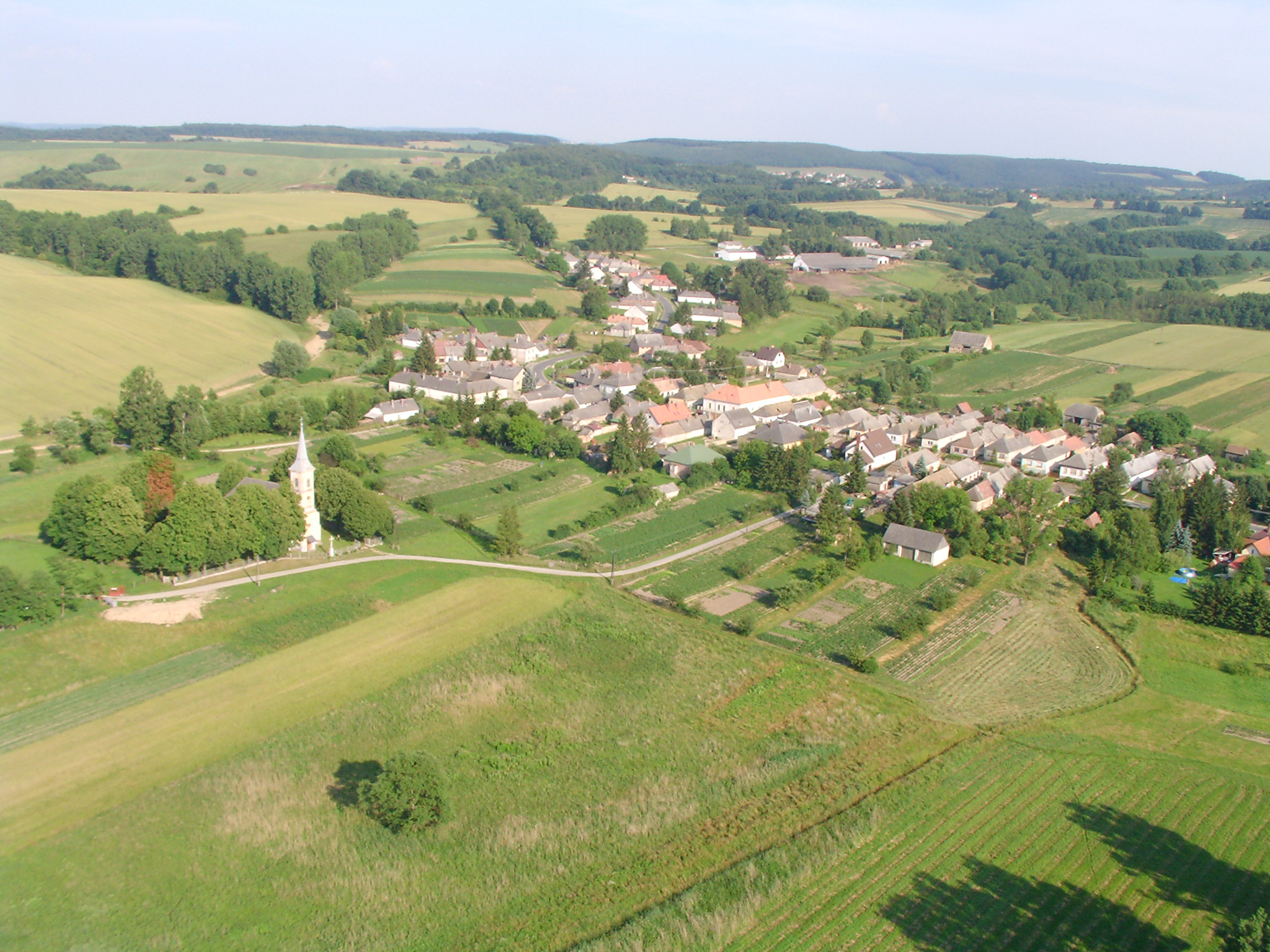 Airial photo of Porva